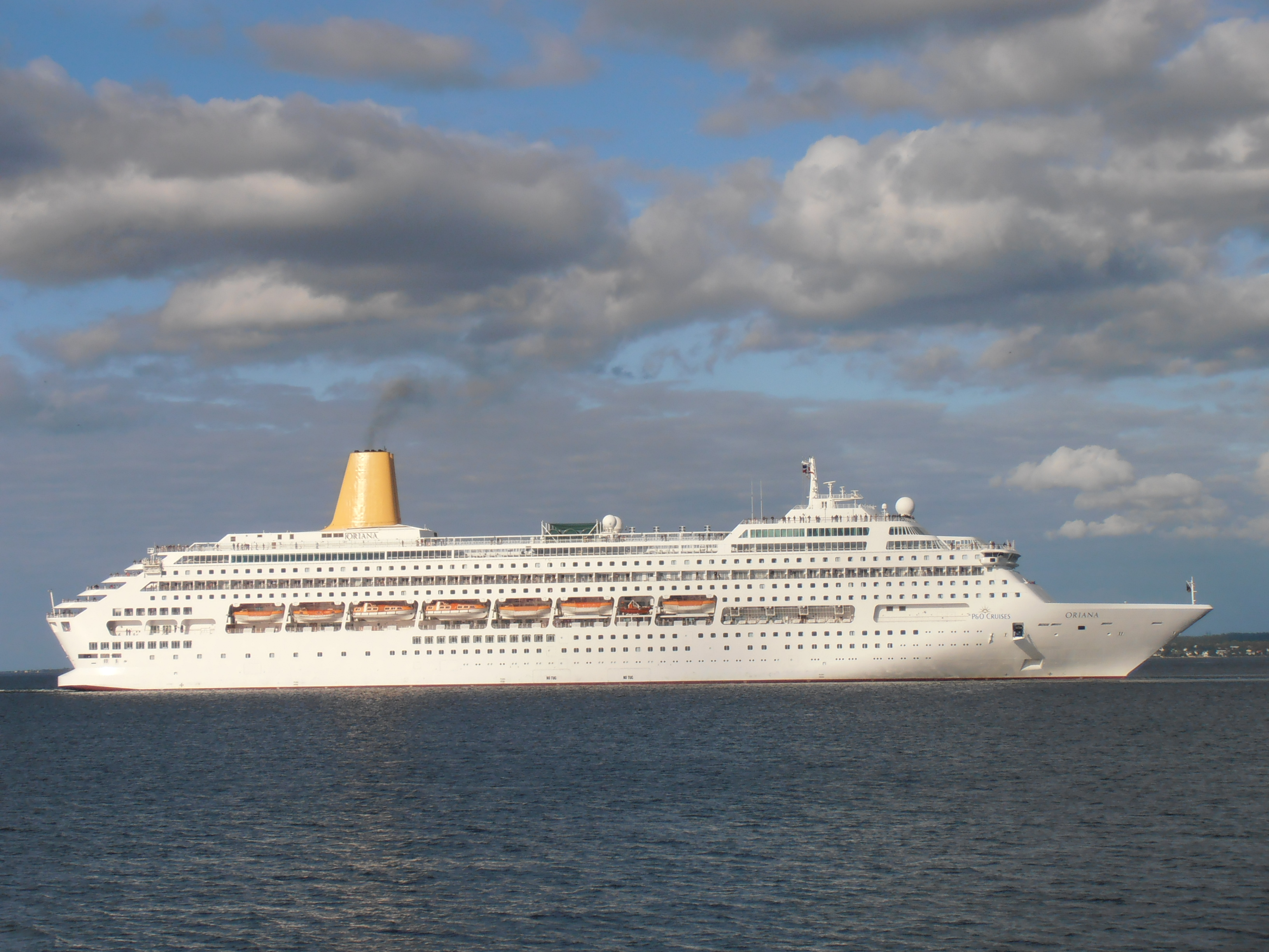 Oriana Starboard Side Tallinn 10 September 2012